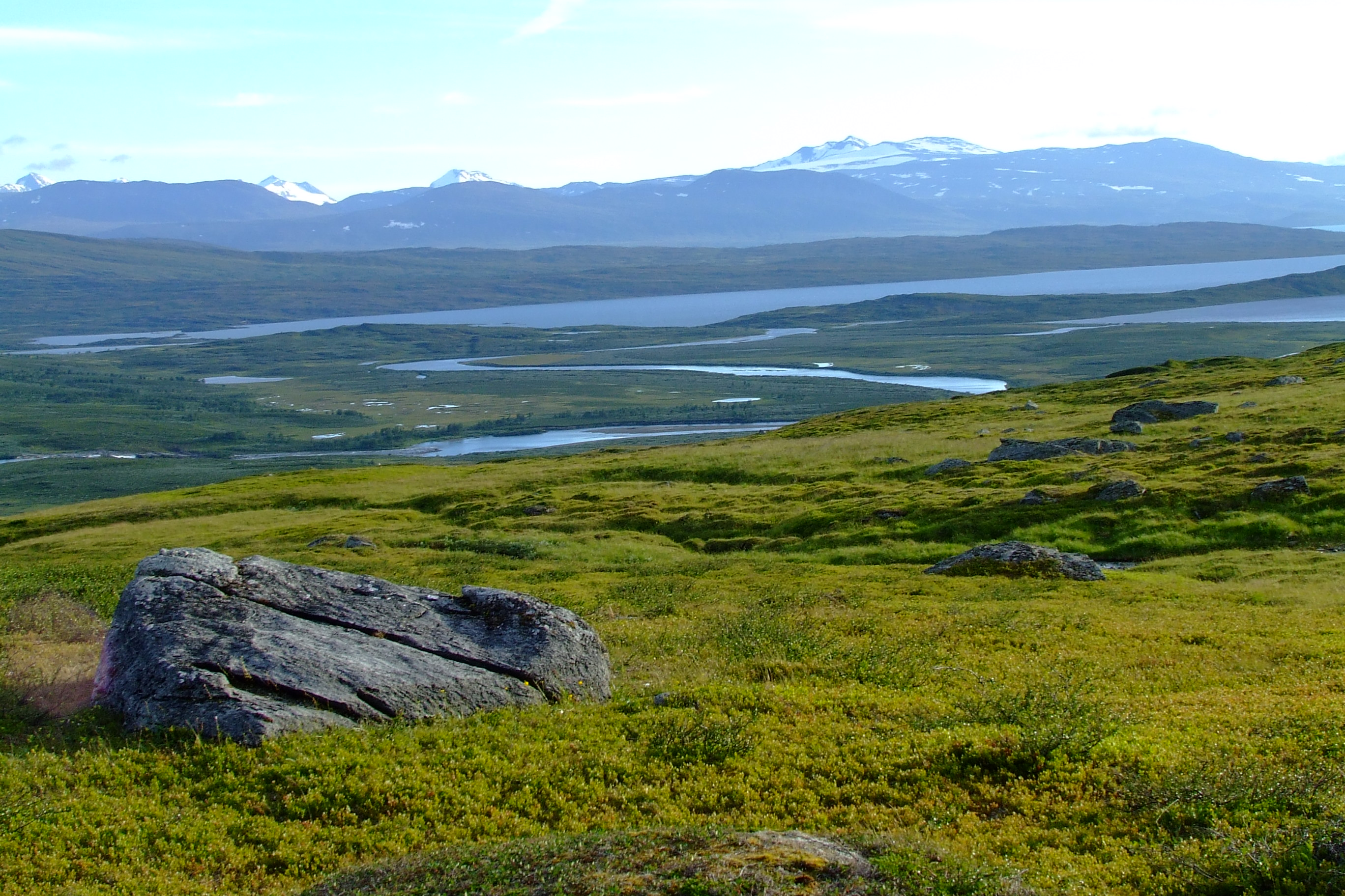 View over Vastenjaure lake, Padjelanta national park